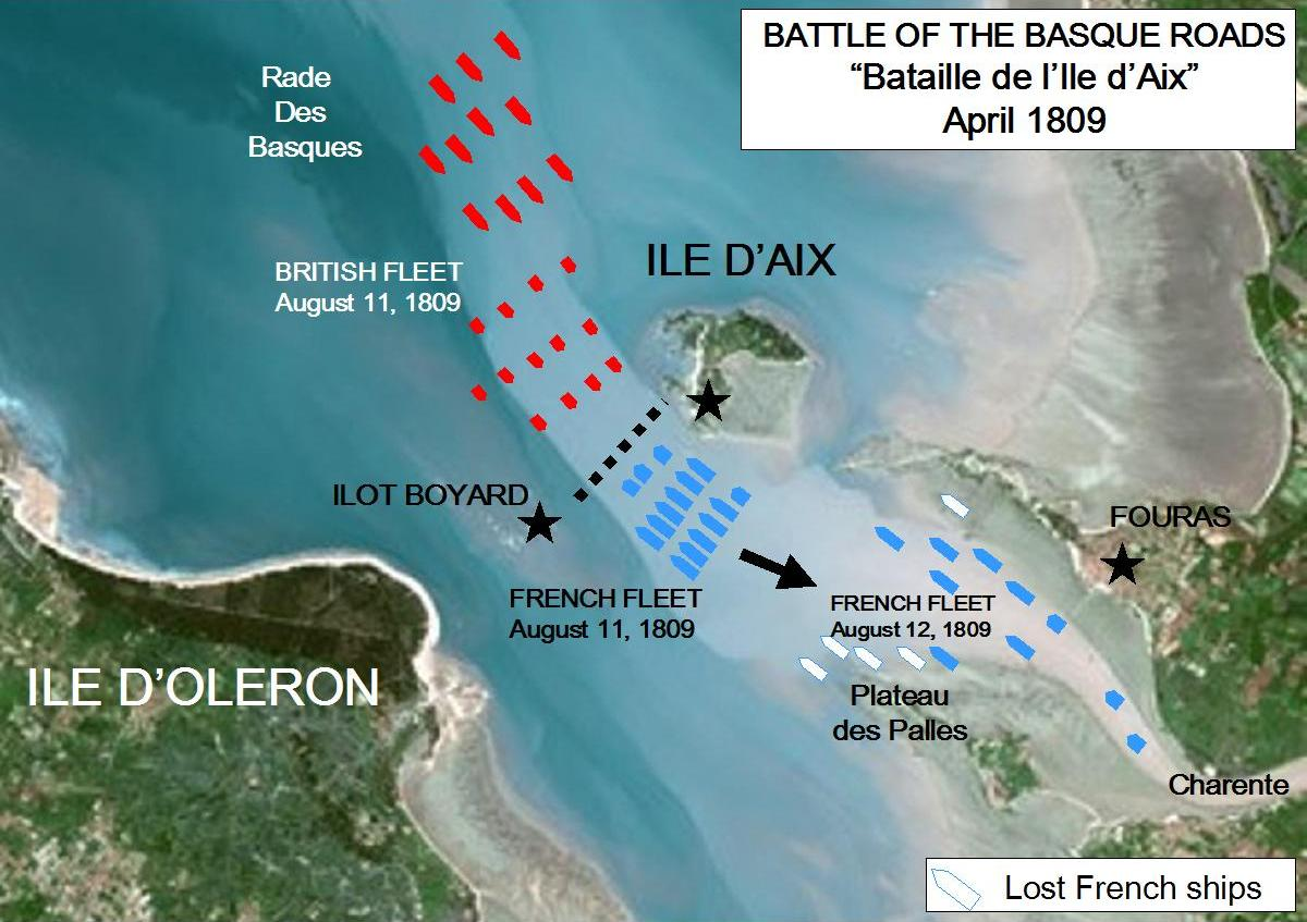 Map Battle of Basques Roads 1809